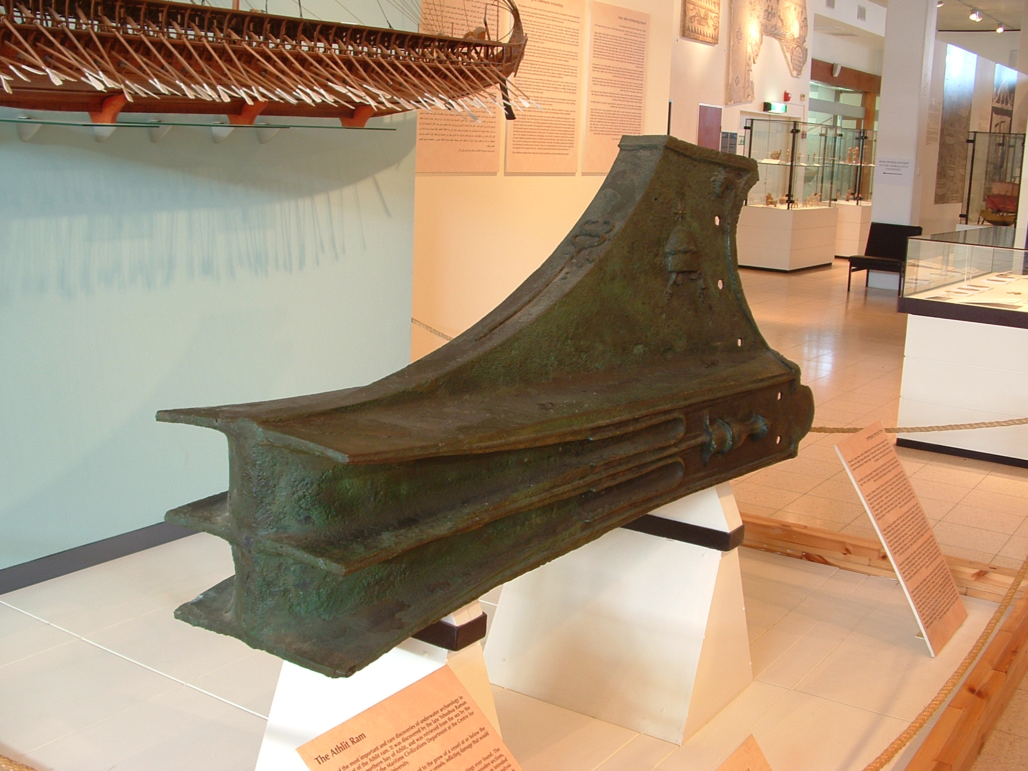 Israeli National Maritime Museum- Exhibitions המוזיאון הימי הלאומי - פריטים מהתצוגה This image was taken as part of the Elef Millim project trip and within the Wikipedia Loves Art project to the National Maritime Museum in Haifa in the northern part of Israel, which was held on Friday, 22nd January 2010. To view all images uploaded as pary of the Elef Millim Project This image was given with courtesy of Israel Antiquities Authority To view all images uploaded as courtesy of the Israel Antiquities Authority Ram from a Greek warship, made from bronze. 2nd century BCE recovered from the sea at Athlit Israel איל ניגוח ימי מאוניית מלחמה יוונית עשוי ברונזה. מהאמה ה-2 לפנה"ס. נמשה מן הים בעתלית